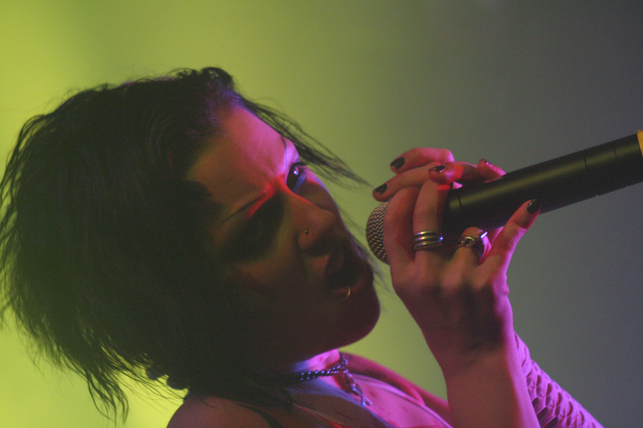 Unter Null at Infest 2006